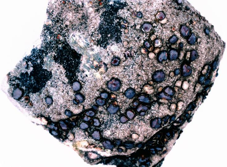 Sarcogyne regularis Körber, 1855 (photograph of a herbarium specimen) Growing on limestone near the water at Bush Bay picnic area, ca. 6 miles E of Cedarville on M-134, Mackinac County, Michigan, USA; collected and identified by Richard E. Riefner (No. 81-416, 7 Jul 1981); specimen is now in the Lichen Herbarium of the New York Botanical Garden.